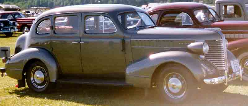 Pontiac Six 4-Door Touring Sedan 1938